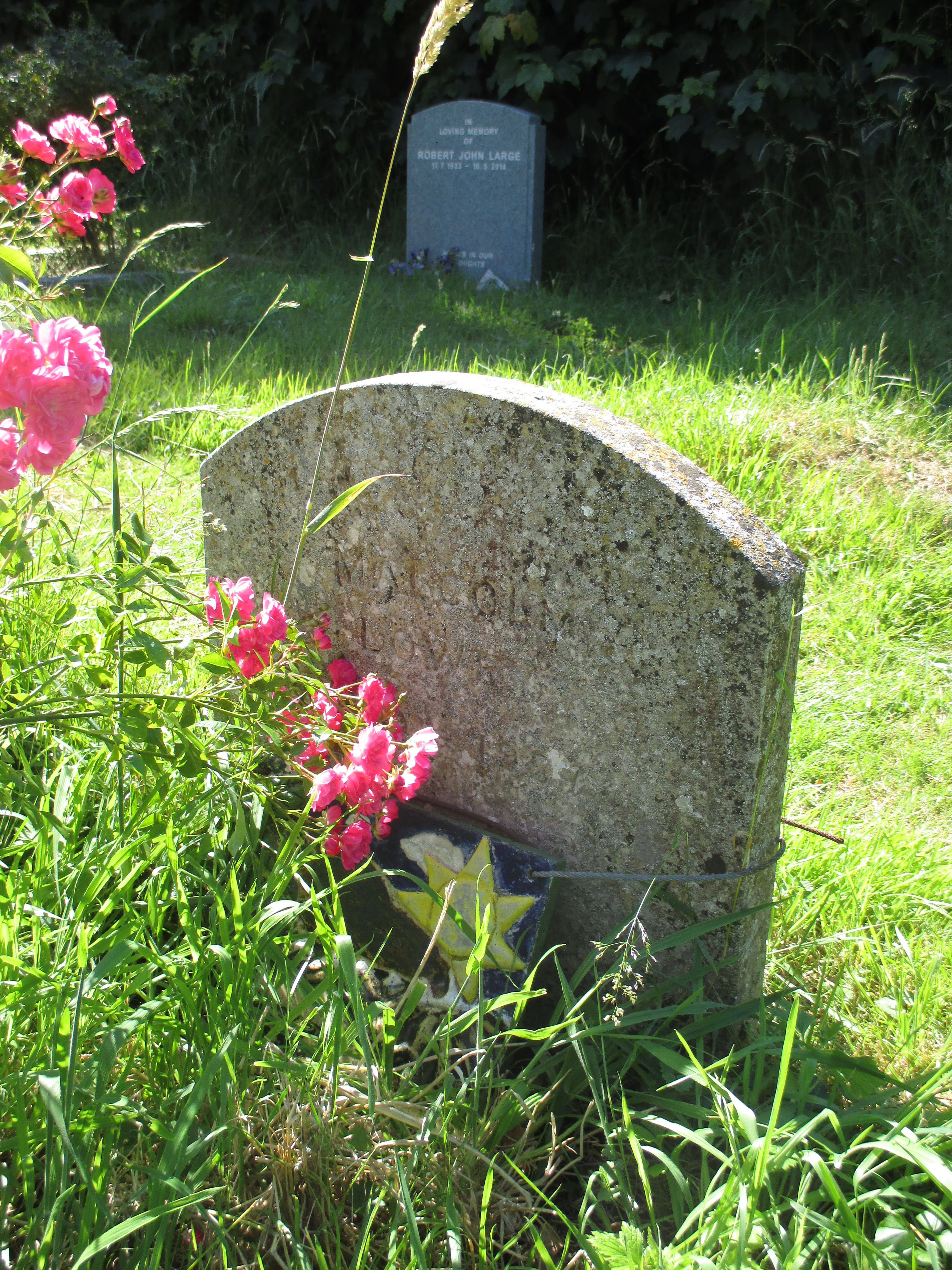 The gravestone of the novelist Malcolm Lowry, in the churchyard of St John's Church, Ripe, East Sussex.